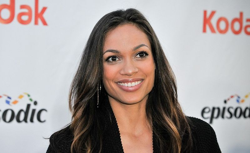 Rosario Dawson at the 2009 Streamy awards